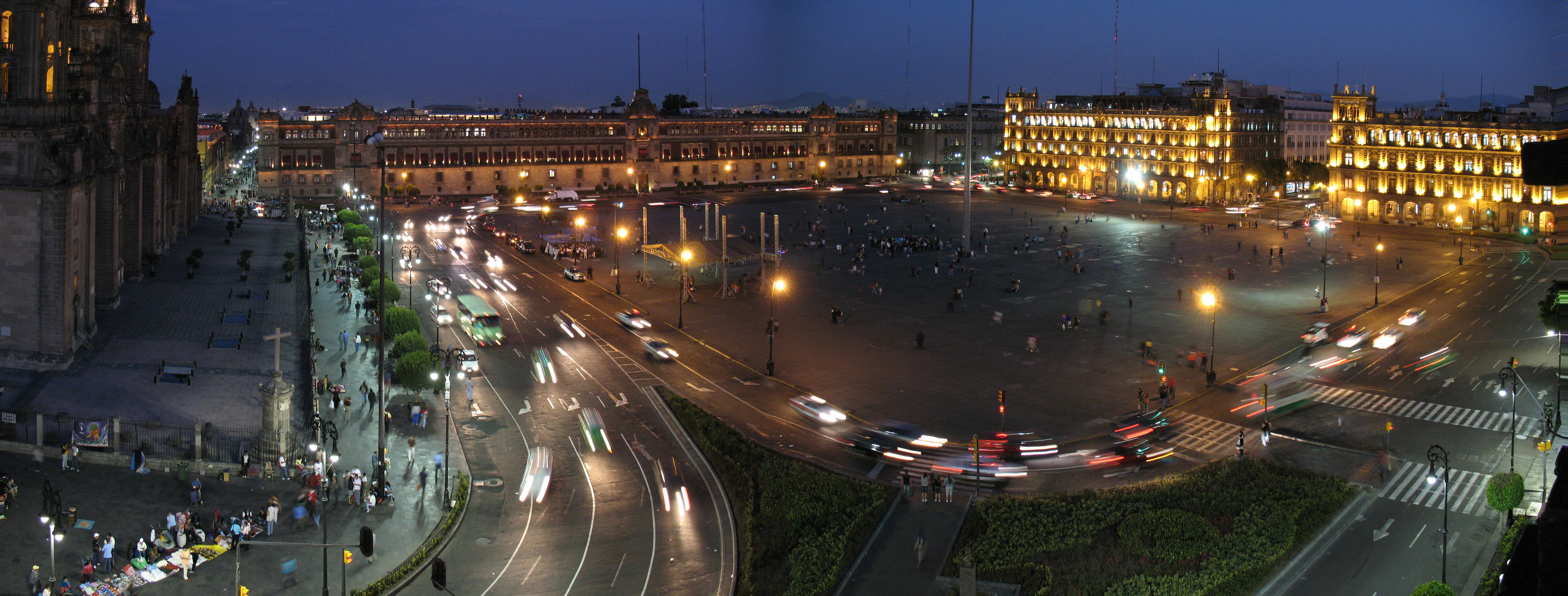 lively Zócalo in Mexico City at nightfall, seen from rooftop of Holiday Inn